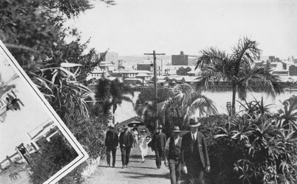 Entrance to the Kangaroo Point ferry terminal, Brisbane, ca. 1928.